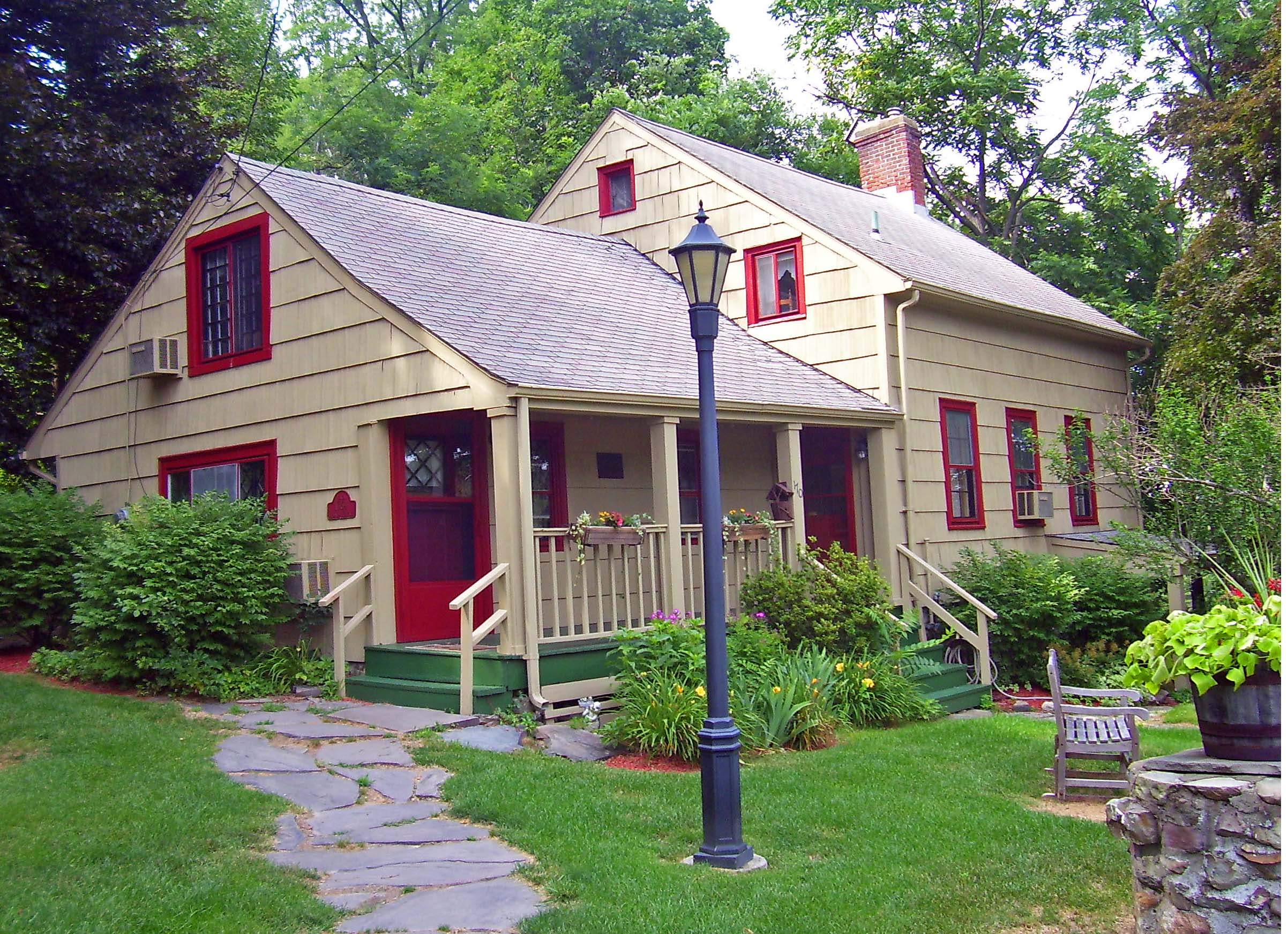 The Chimneys, a 1764 cottage on the property of Cromwell Manor in Cornwall, NY, USA.